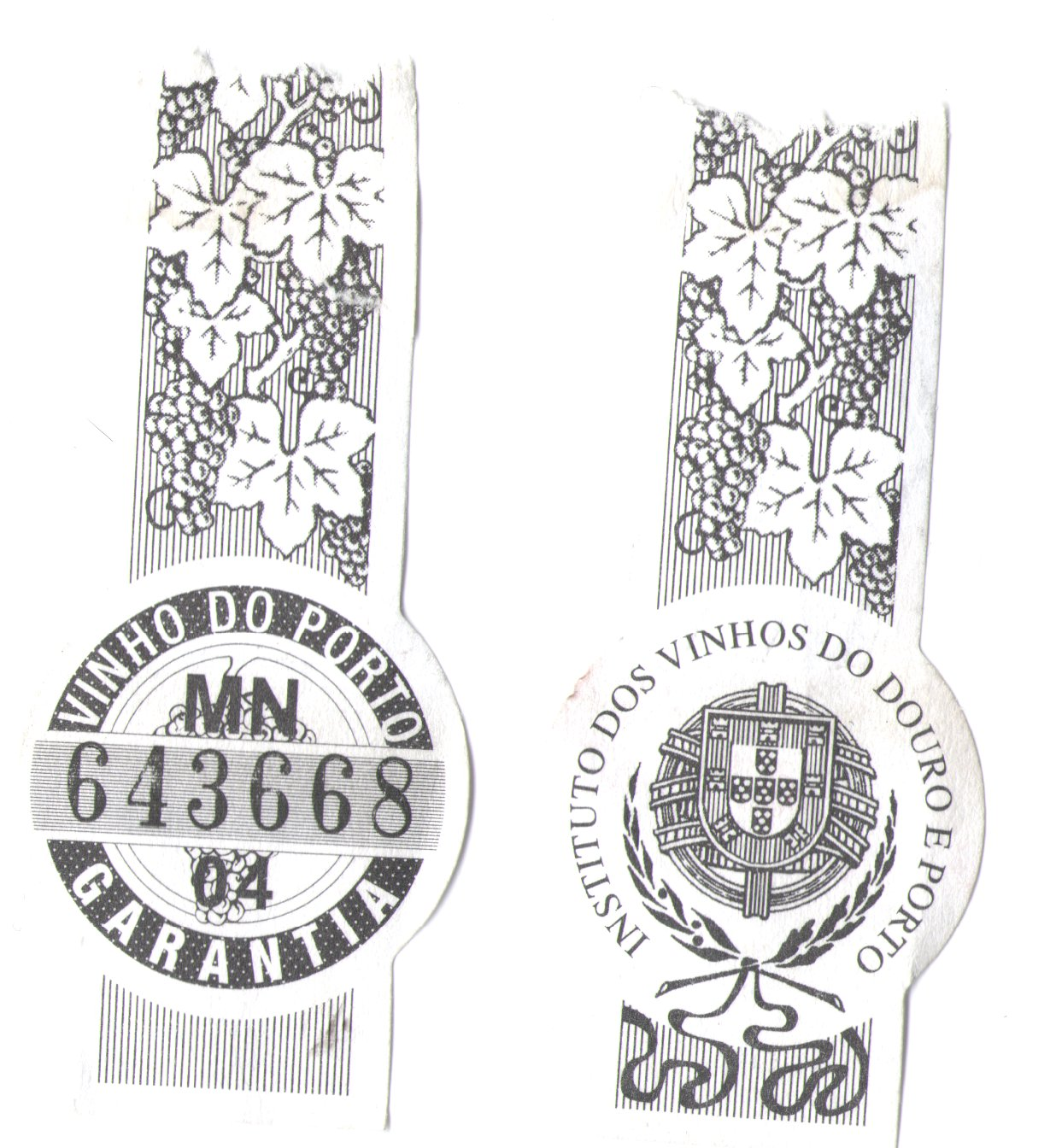 Scan of an original Port guarantee label.